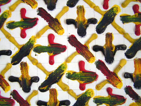 Artist :Gianfredo Camesi work of 1981 (détail).